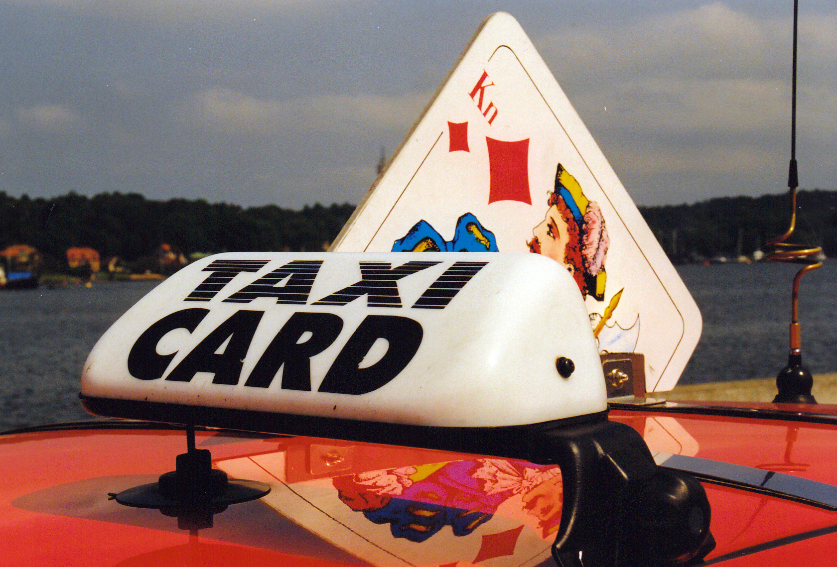 Taklampa och spelkort på taket